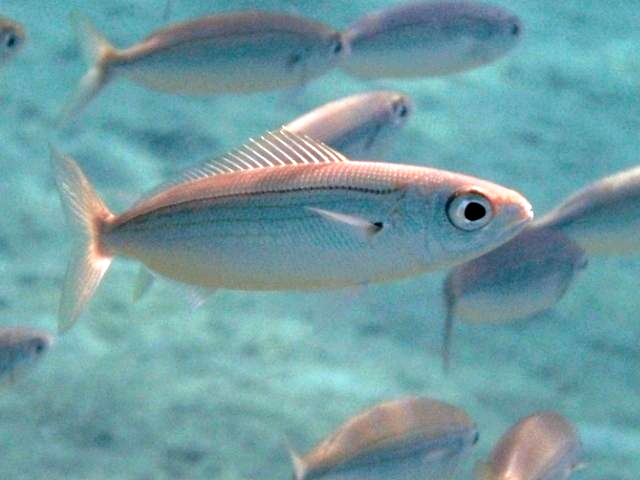 Boops boops photographed in Karpathos, Greece.